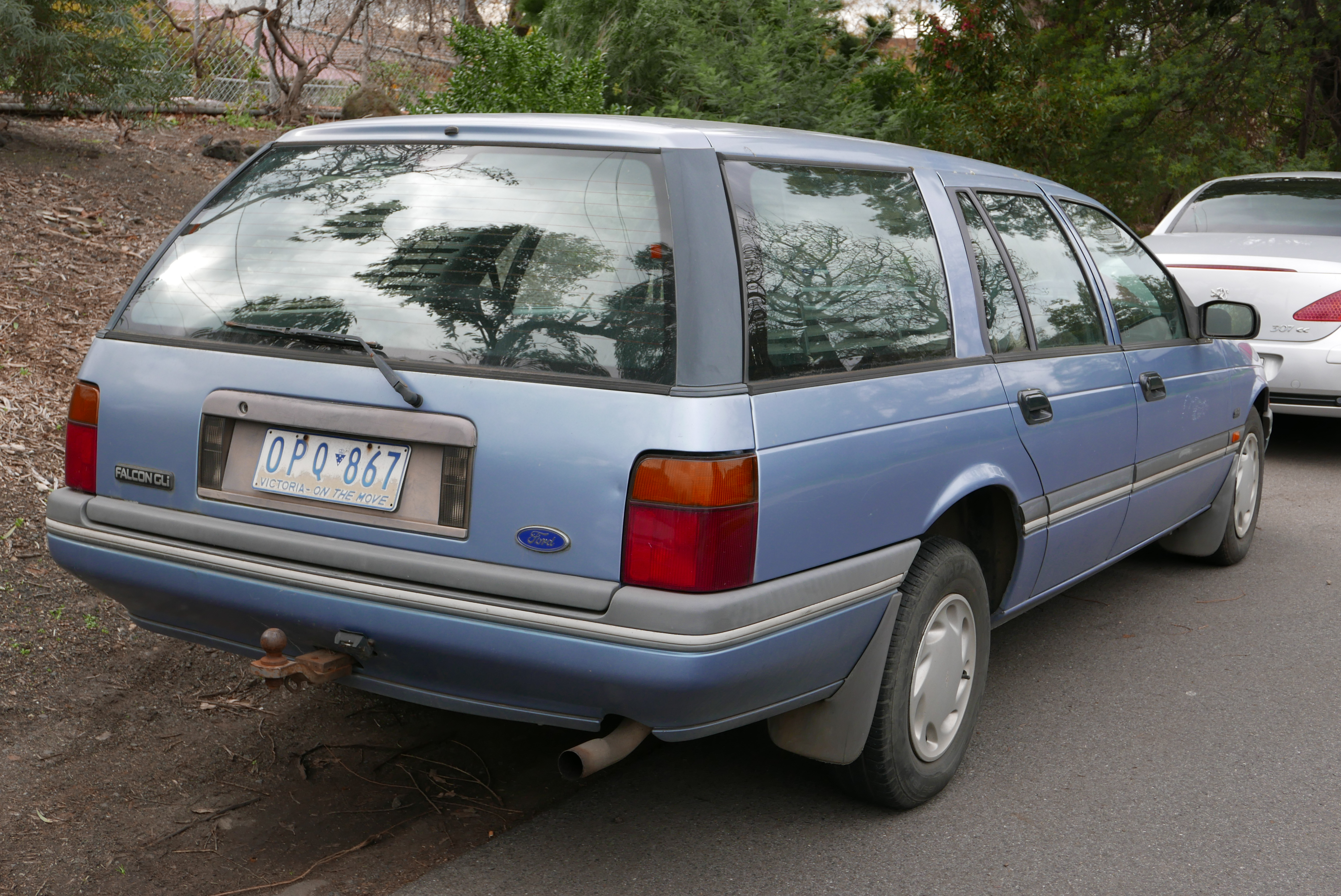 1993 Ford Falcon (ED) GLi station wagon. Photographed in Northcote, Victoria, Australia. Vehicle registration enquiry results Jurisdiction Victoria Registration OPQ867 Chassis code 6FPAAAJGWAPC42861 Engine code JGWAAPC42861 Compliance date 1993-09 Year of manufacture 1993